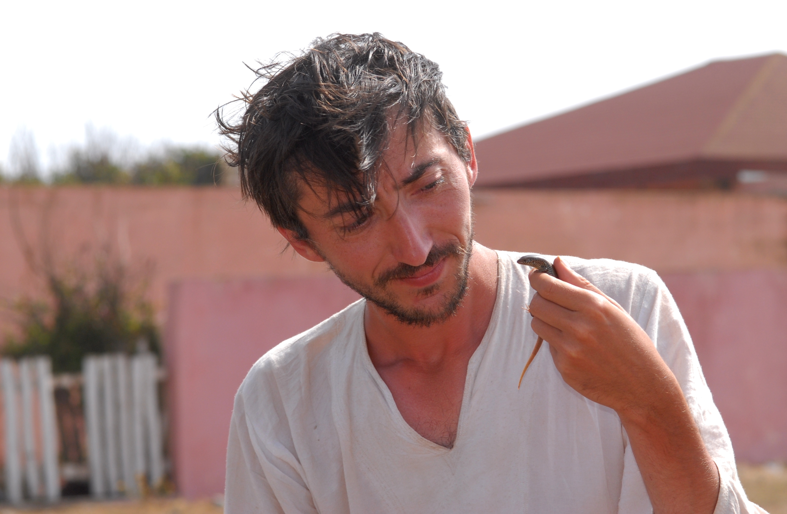 French zoologist Aurelien Miralles holding a Many-scaled Cylindrical Skink (Chalcides polylepis) in Morocco.